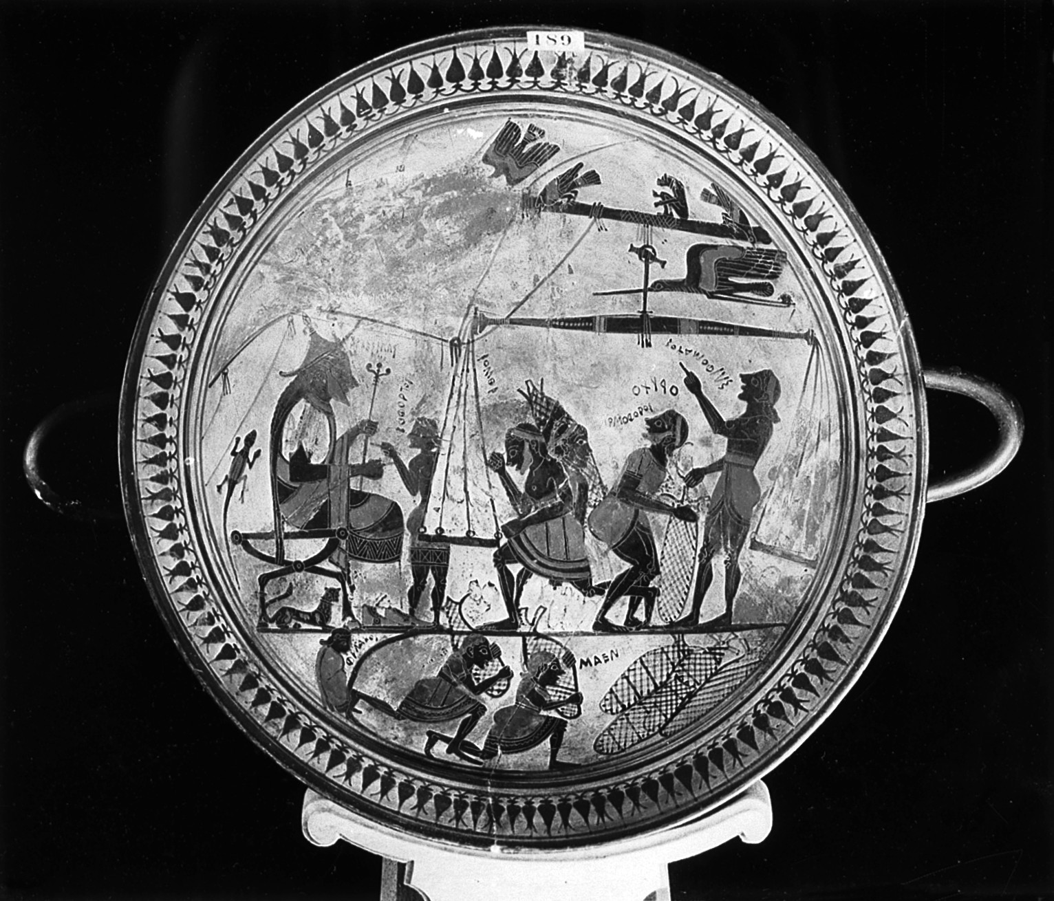 Wash drawing: weighing and loading of Silphium at Cyrene. From a Laconian Kylix of the 7th century B.C. in the Bibliotheque Nationale, Paris. Wellcome Images Keywords: Materia Medica; Botany